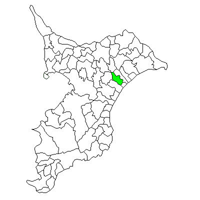 Location Map of former Matsuo Town, Chiba Prefecture, Japan, now part of Sanbu City.